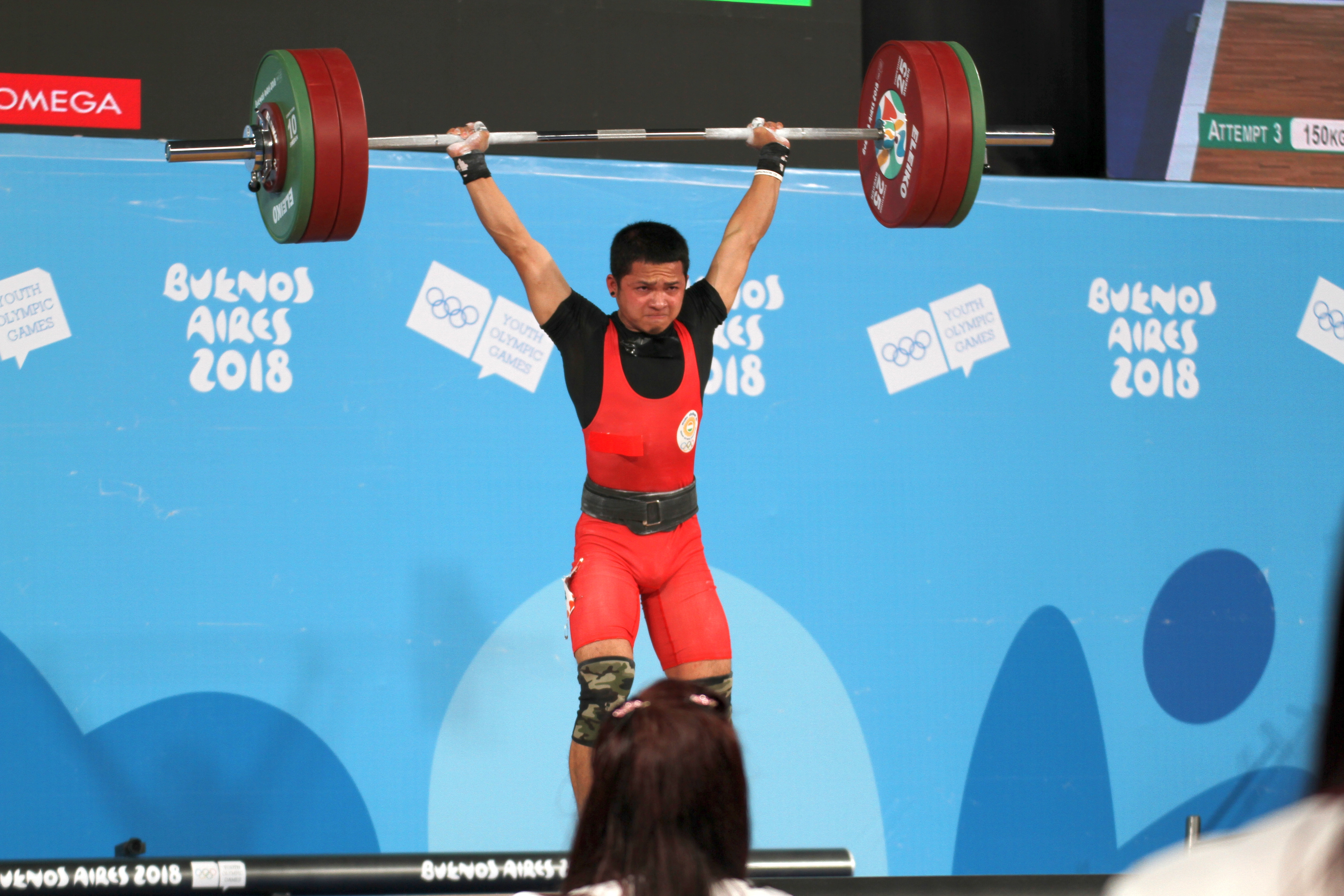 Weightlifting at the 2018 Summer Youth Olympics at 8 October 2018 – Boys' 62 kg